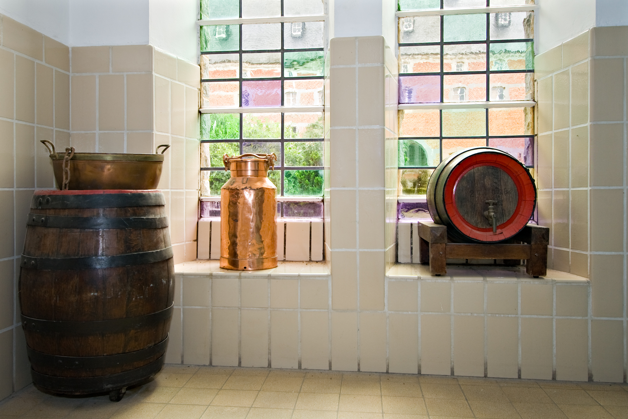 Rochefort Trappist Brewery in Abbey of Our Lady of Saint-Remy, Wallonia, Belgium. Brewing is the main source of income for the monastery since the 16th century.